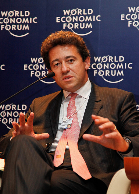 SEOUL/SOUTH KOREA, 18JUN09 - Charles-Edouard Bouée, President and Managing Partner, Greater China, Roland Berger Strategy Consultants, People's Republic of China - captured during the World Economic Forum on East Asia in Seoul, South Korea, June 18, 2009. Interactive Session - Social Challenges. Camera: Canon EOS 5D Mark II License on Flickr (2010-12-27): CC-BY-SA-2.0 Flickr tags: 2009, Asia, East Asia, Korea, Korea09, Seoul, WEF, World Economic Forum Copyright World Economic Forum / Photo by Oh Jaehyuk